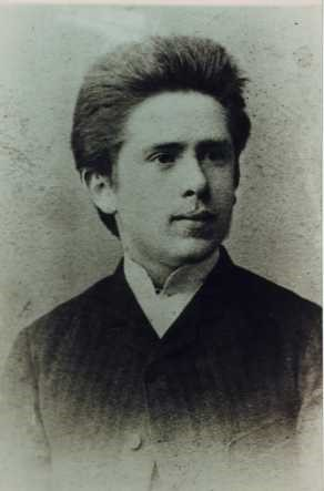 Israel Zinberg (or Yisroel Tsinberg) 1873 - 1938 (or 1939): chemist and historian of Jewish litterature.